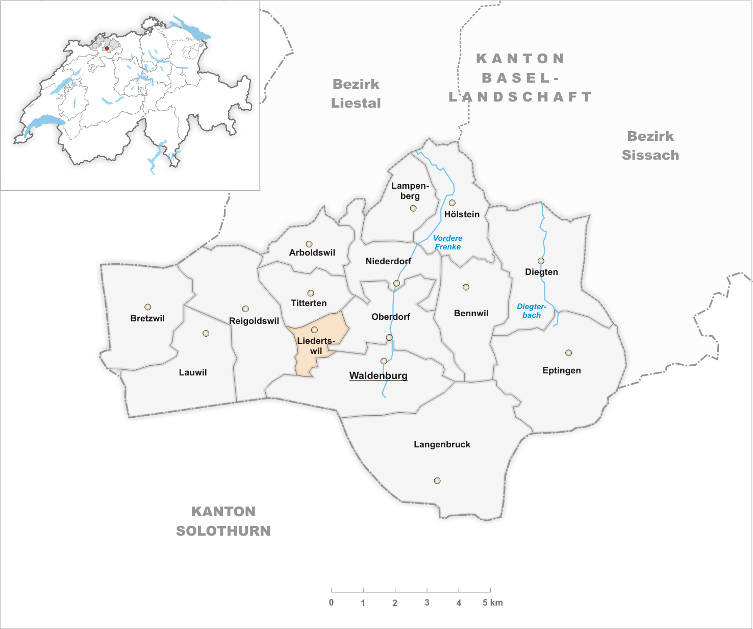 Municipality Liedertswil